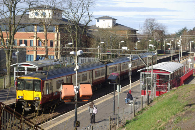 Singer railway stationOriginal description: Quite possibly the only railway station in the world to be named after a sewing machine factory - Singer's was a major employer in Clydebank between 1885 and 1980.